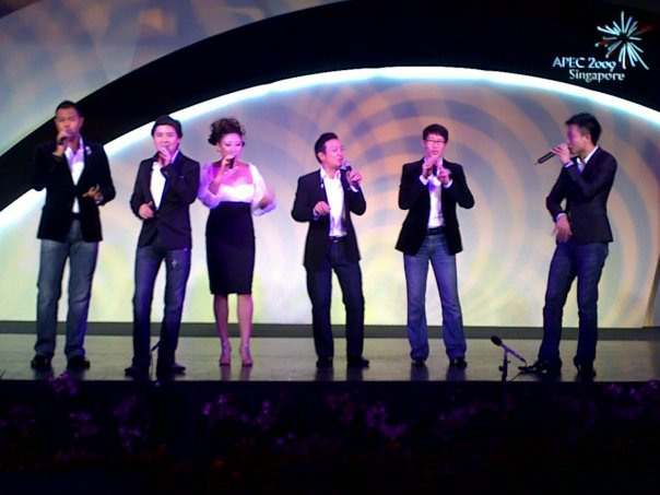 Performance at The Esplanade for APEC Singapore